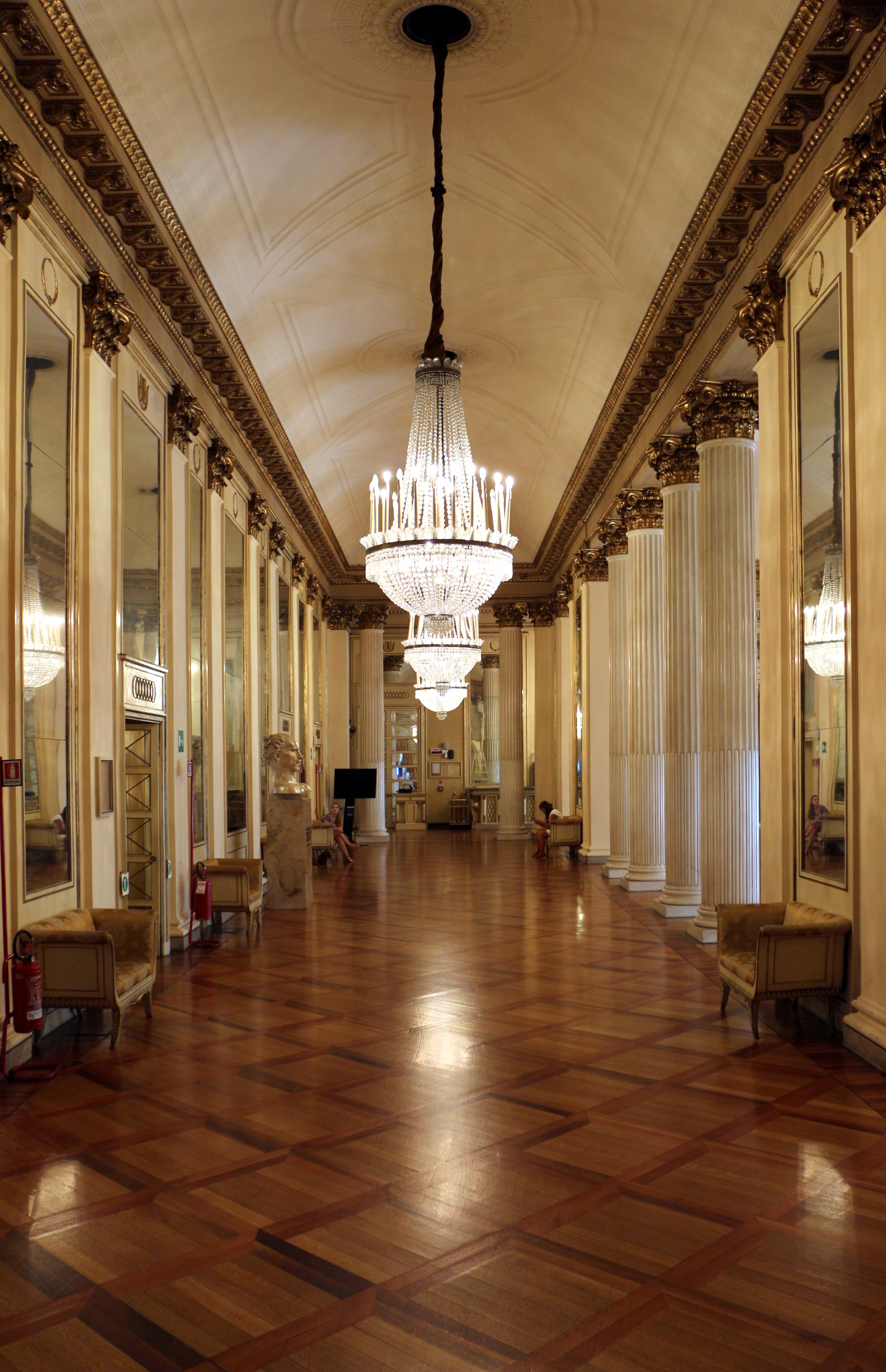 Museo del Teatro alla Scala (Milan)